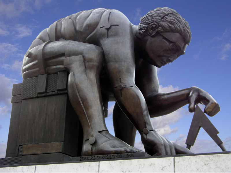 This statue was shot outside the British Library in London, United Kingdom. It is a statue by Eduardo Paolozzi of Isaac Newton from a painting by William Blake. The inscription reads... 'NEWTON' after William Blake by Eduardo Paolozzi 1995 Grant aided by The Foundation for Sport & the Arts. Funded by subscriptions from the football pools, Vernon, Littlewoods, Zetters.